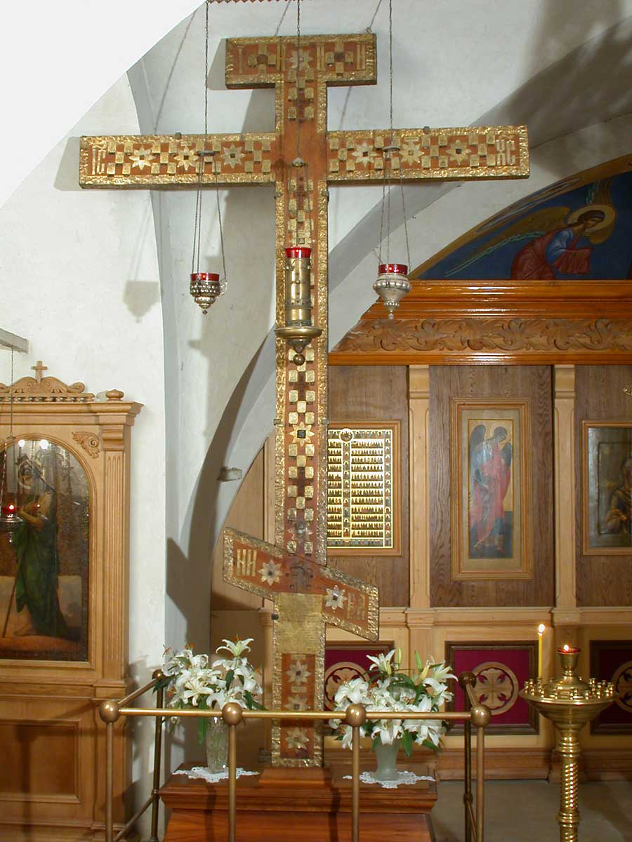 Kiisky Cross of Patriarch Nikon (Кийский крест) - the copy of the True cross made in 1656.